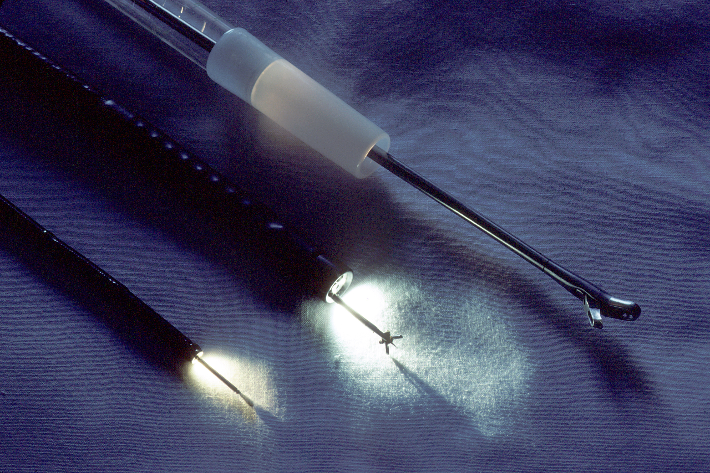 Title Endoscopy Description Instruments used in endoscopy. They are highlighted in an otherwise dark setting and lying on a textured cloth. Flexible fibers, a small brush and a third instrument. The fibers transmit high intensity light through the endoscope shown. The brushes are used to take biopsies. Topics/Categories Test or Procedure -- Imaging Procedures Type Color, Photo Source National Cancer Institute